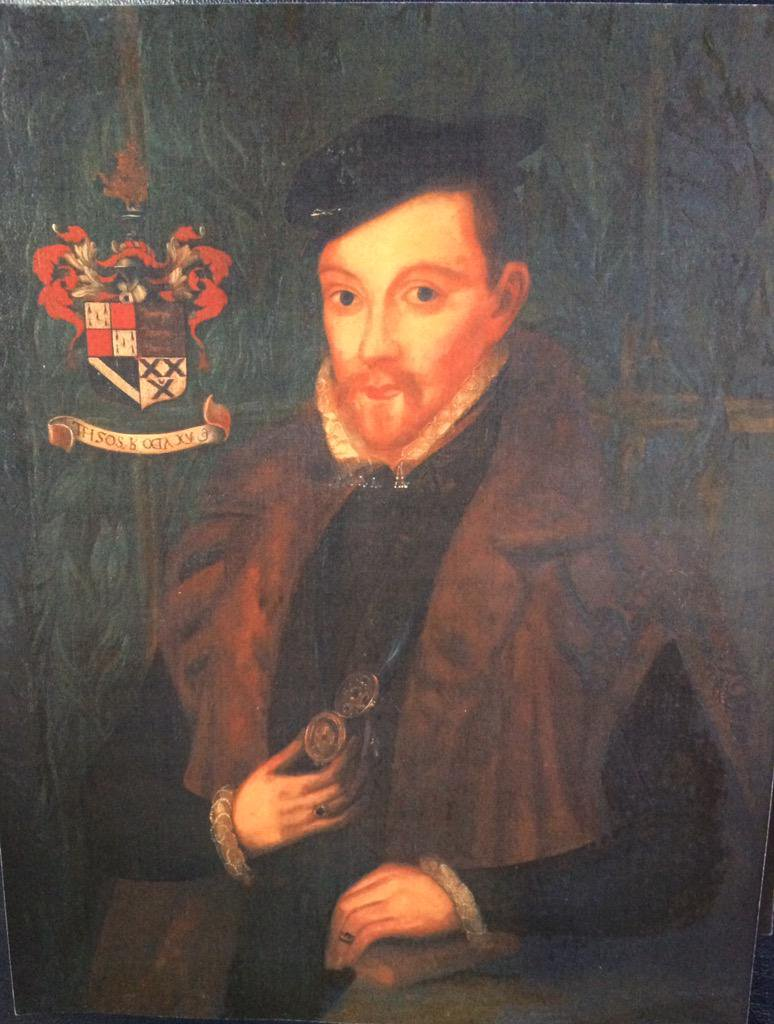 Portrait of Sir Michael Stanhope (pre-1508 – 1552) of Shelford, Nottinghamshire, beheaded 1552, (a son of Sir Edward Stanhope of Rampton, Nottinghamshire) convicted of conspiring to assassinate John Dudley, 1st Duke of Northumberland. The arms are: Quarterly of 4: 1: Quarterly ermine and gules (Stanhope); 2: Vert, three greyhounds courant in pale or (Maulovel of Rampton, Notts, an heiress of Stanhope (blazon per: Thomas Robson, The British herald)) 3: Sable, a bend between six cross-crosslets argent (Longvillers of Tuxford, Nottinghamshire, a Maulovel heiress (Thoroton's History of Nottinghamshire: Volume 3, Republished With Large Additions By John Throsby, Originally published by J Throsby, Nottingham, 1796, pp.241-248[1]; Sometime visible in Tuxford Church per Thoroton, pp.219-226: "And here was also, Arme Johannis Lungvillers Patroni istius Ecclesiæ, viz: Sab. a Bend between six Crossecroslets Arg. which are upon the shield of an old effegies, on an ancient tomb, towards the North side of the Chancel." 4: Argent, three saltires .... (?)